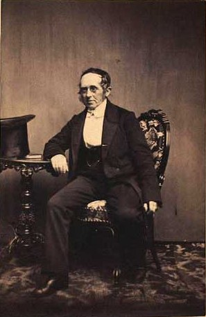 Christian Thorning Engelstoft (1805-1889), Danish bishop, Church Minister and Rector of the University of Copenhagen